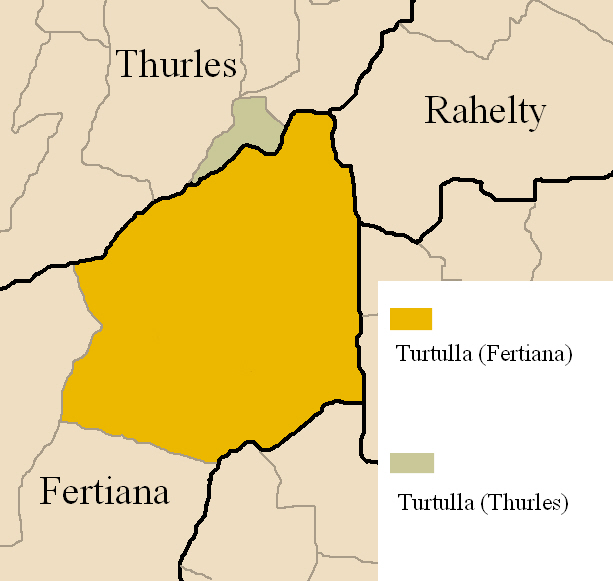 Map contrasting the two neighbouring townlands called Turtulla, one in each of Thurles and Fertiana civil parishes